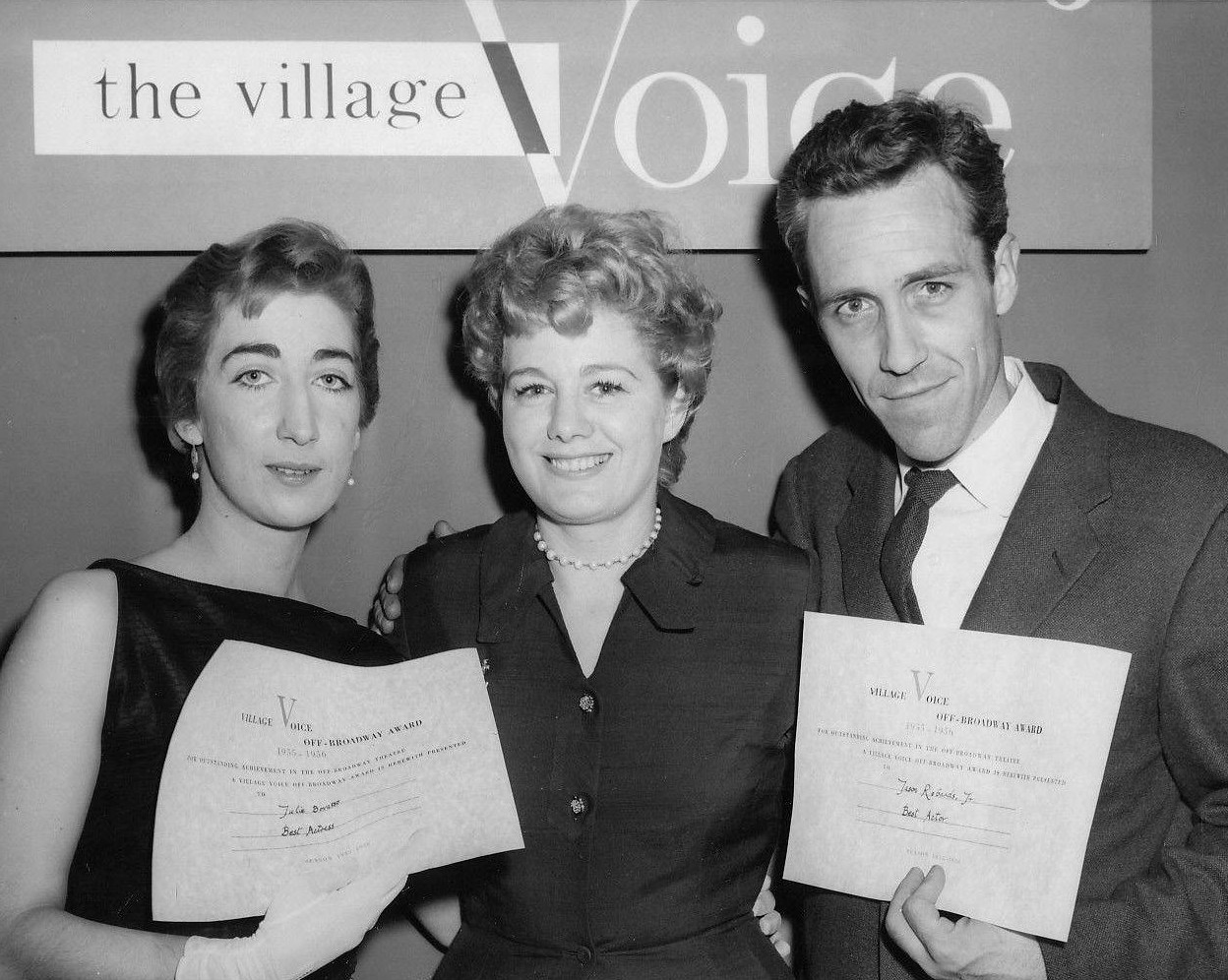 Photo of Julie Bovasso, Shelly Winters and Jason Robards receiving Obie Awards from the Village Voice in 1956.